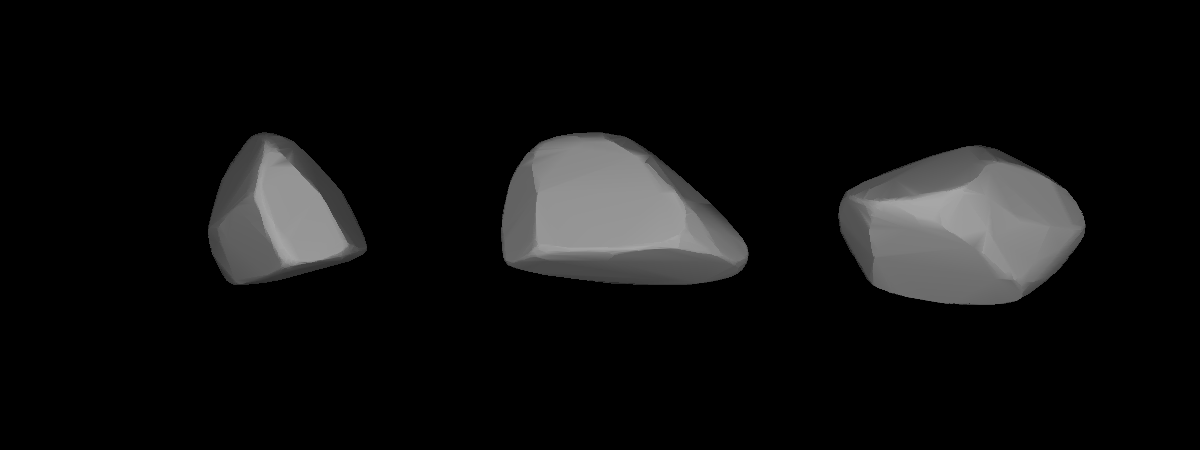 A three-dimensional model of 1630 Milet that was computed using light curve inversion techniques.